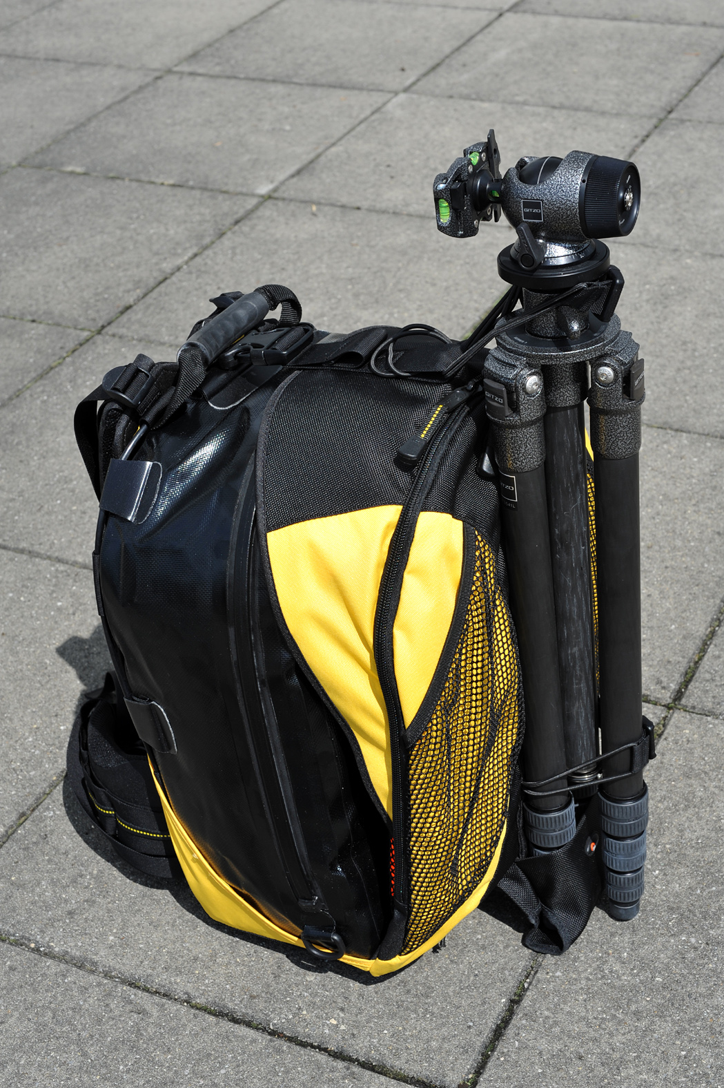 Lowepro camera backpack DryZone 200 with watertight main compartment and water-repellent exterior compartments. With strapped Gitzo tripod.